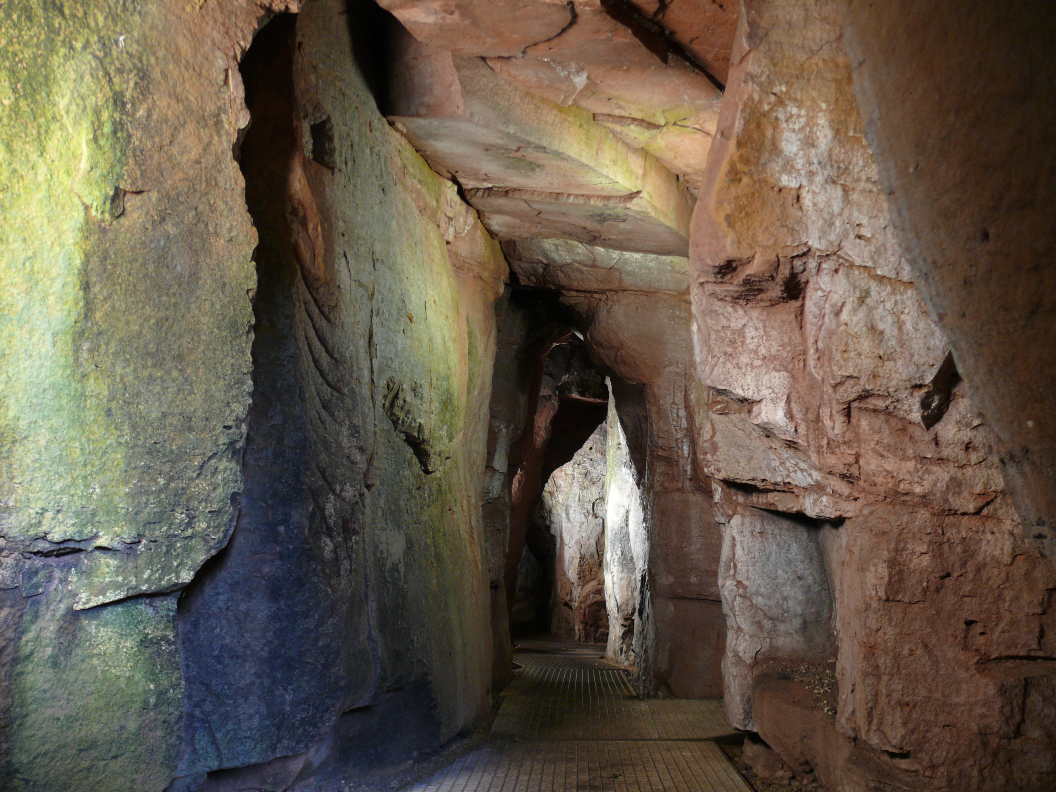 The Burgstollen, a historical adit below Dilsberg Castle near Neckargemünd (Germany): west-east section of the adit, looking from east (i.e. from the entrance) to west. The stone is Buntsandstein. Sorry that the image is not perfectly sharp, but it is difficult to make photographs within an adit ;–)